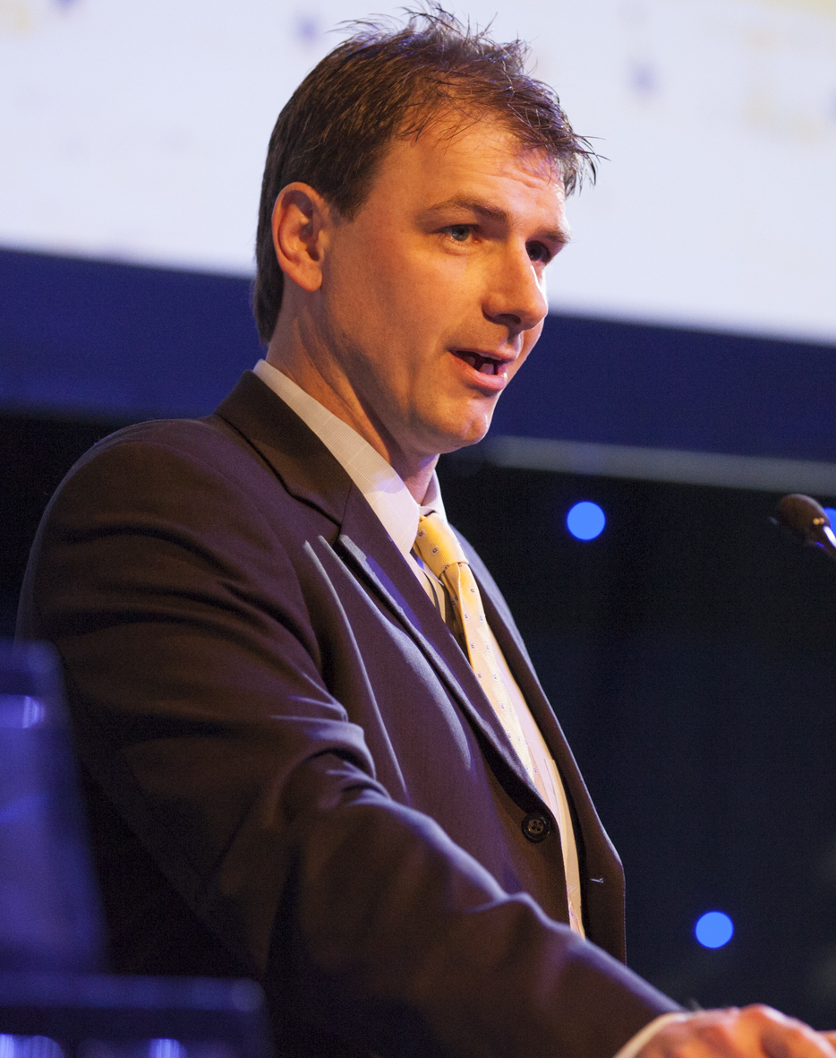 AHL HOF web (5 of 7)